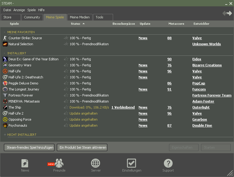 Steam's main window - the 'games list'.